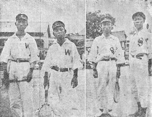 Soft tennis at the 1921 Korean National Sports Festival